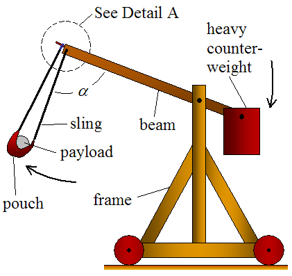 trebuchet